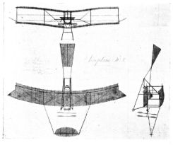 Ferber plan and elevation of planes nb 8 and 0